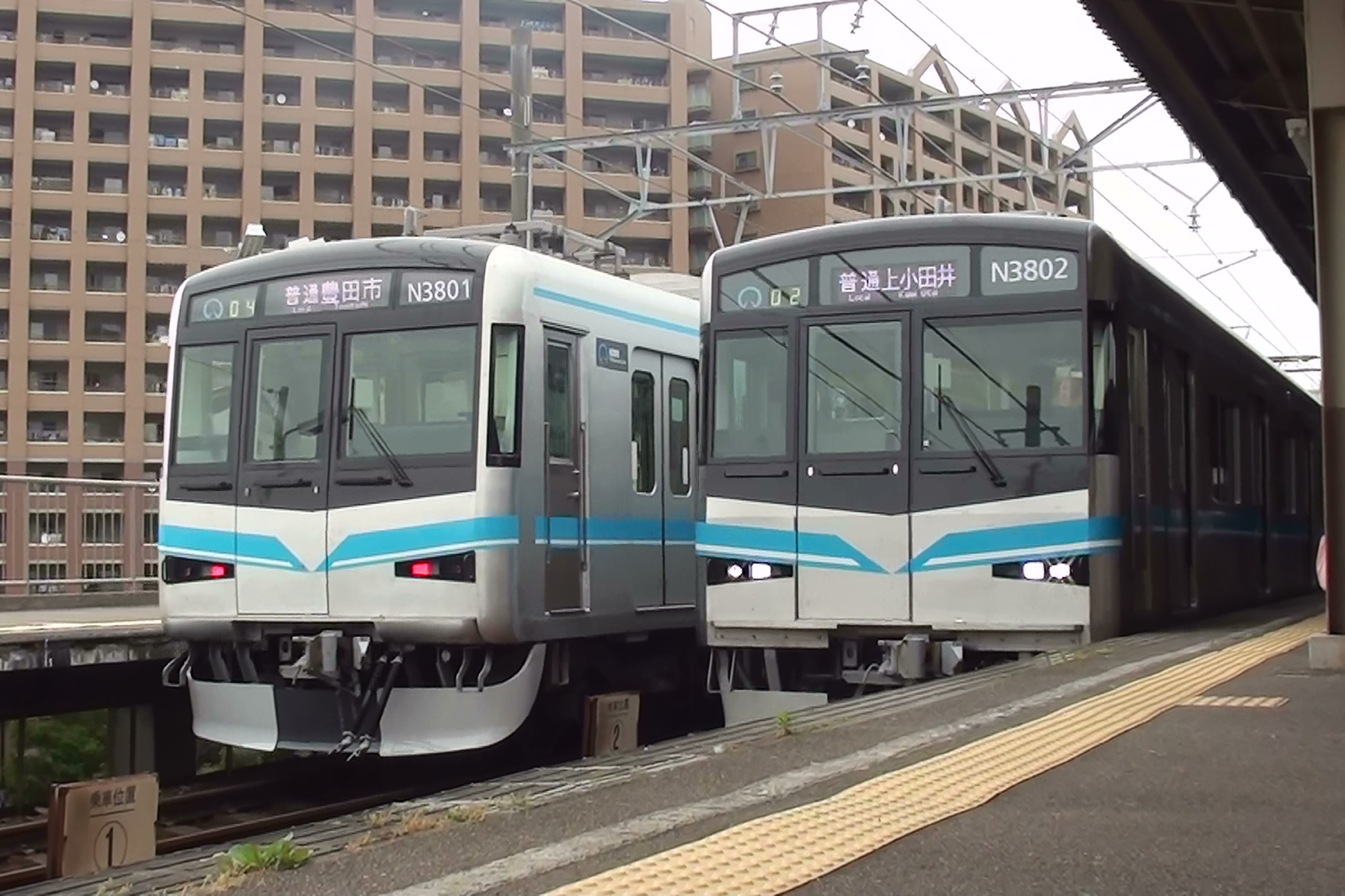 Nagoya Municipal Subway N3000 series EMU sets N3101 (left) and N3102 (right) at Nisshin Station on the Meitetsu Toyota Line